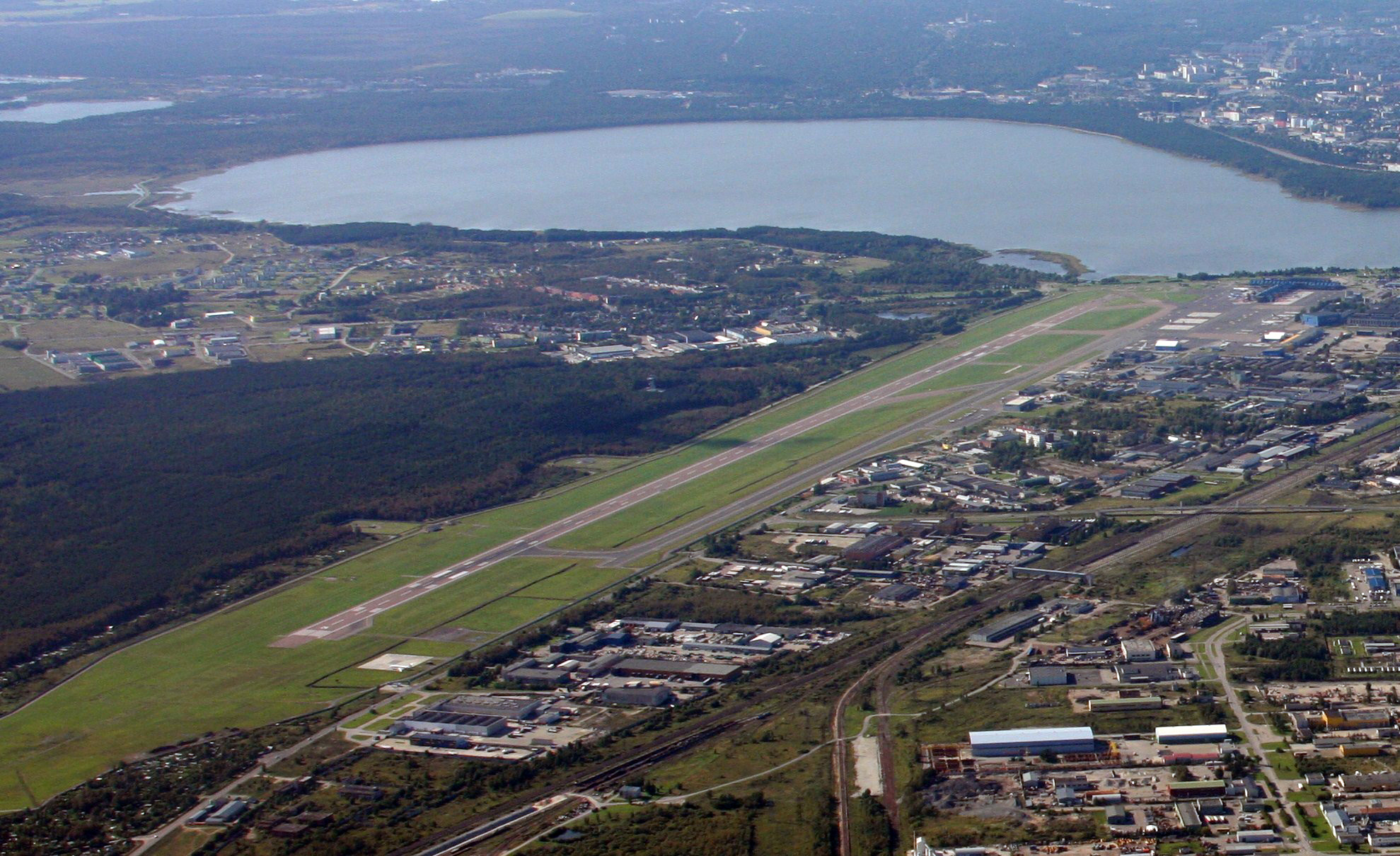 Tallinn airport, Estonia, seen from east towards west